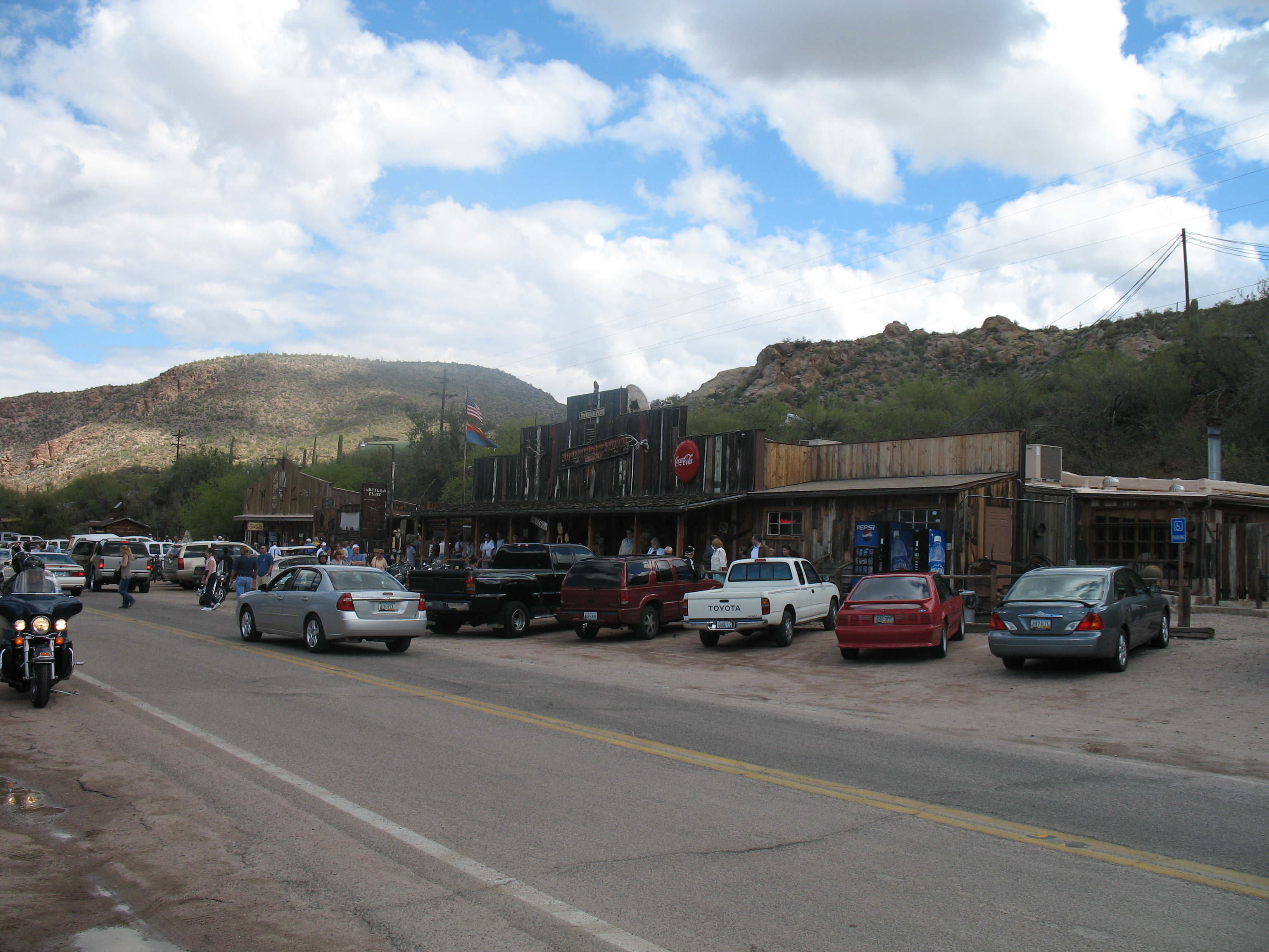 Town of Tortilla Flat — on the Apache Trail (AZ Route 88) in the Superstition Mountains, Maricopa County, Arizona.